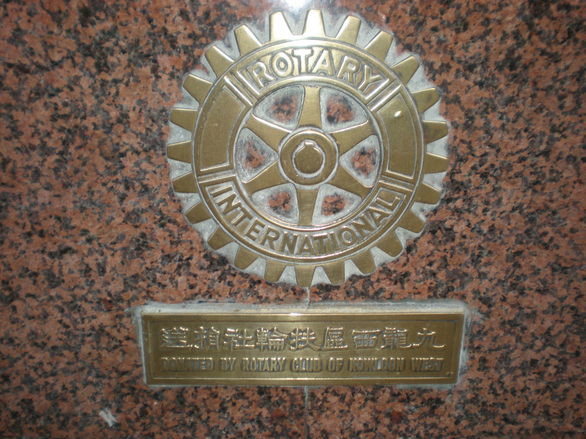 A plaque on a statue by Van Lau on Nathan Road near the eastern entrance to Kowloon Park in Kowloon, Hong Kong donated by the Rotary Club of Kowloon West. See Image:Van Lau - Statue of hands on Nathan Road.JPG.